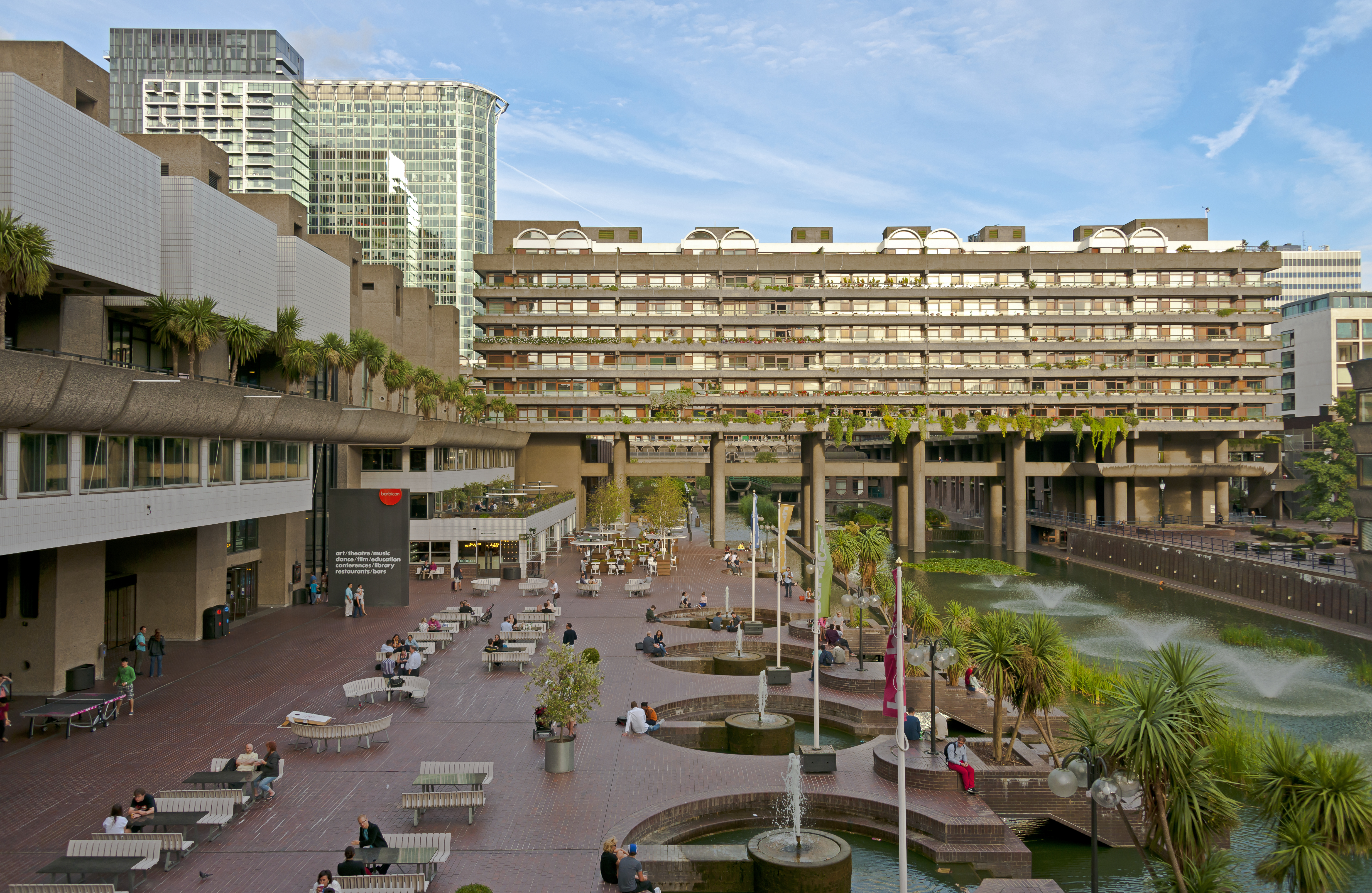 Barbican Lakeside on a summer evening, after Day 2 of Wikimania 2014